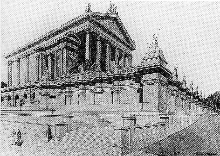 Drawing of reconstruction of the Mercurius temple (Puy-de-Dôme, France) by T. Désarménien. Preserved in the Bargoin museum in Clermont-Ferrand.